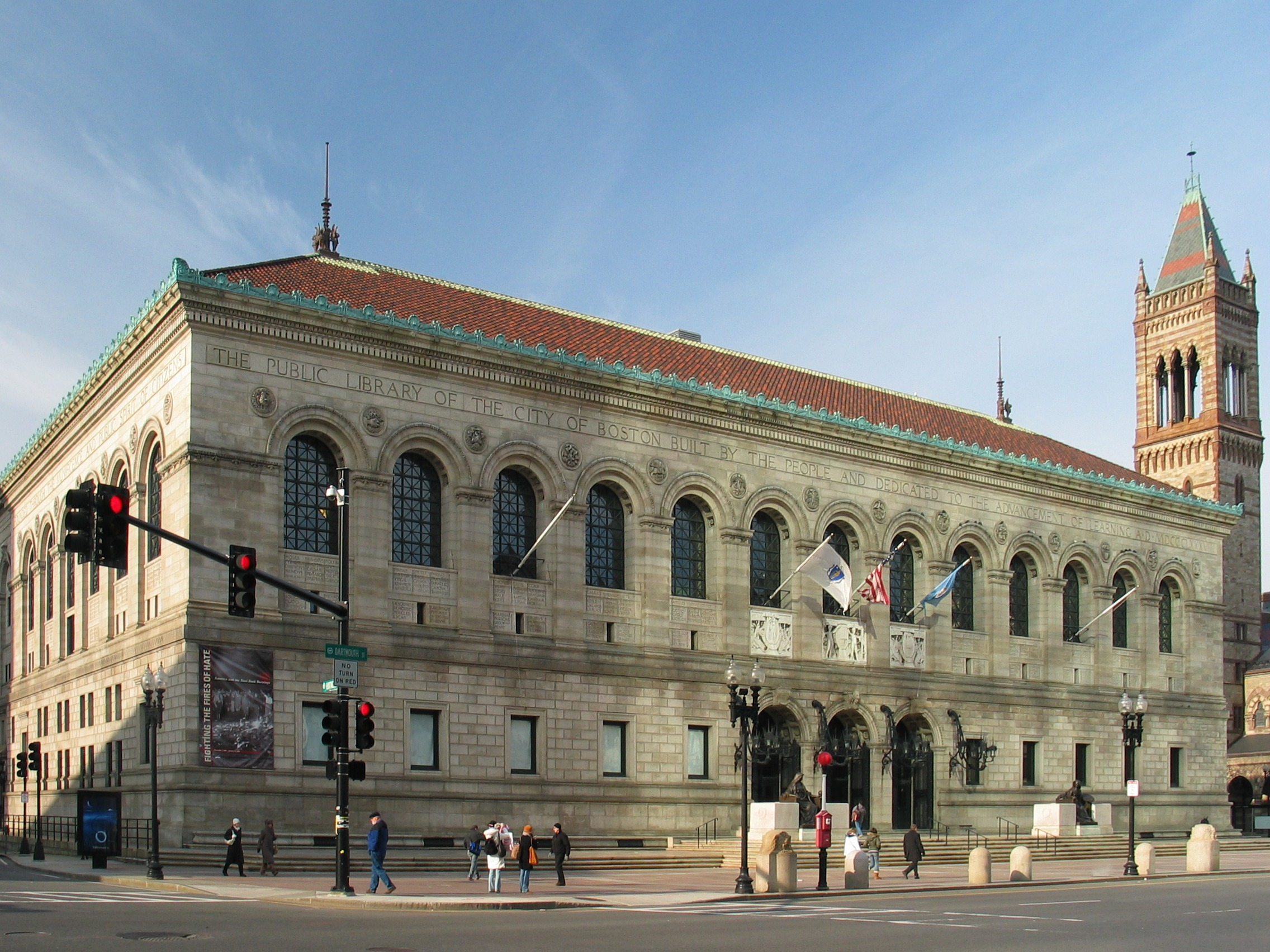 Boston Public Library, McKim building. The peculiar lighting is from sunlight reflected off a highrise nearby.